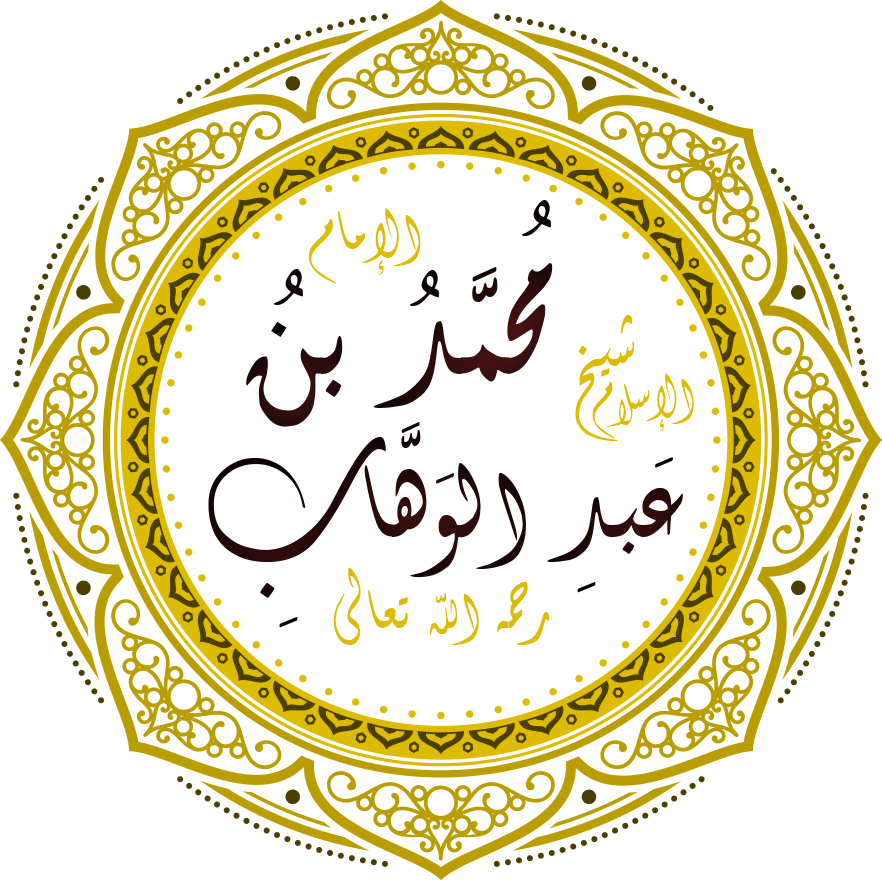 Name of Sheikh Mohammed bin Abdul Wahab Diwani line.